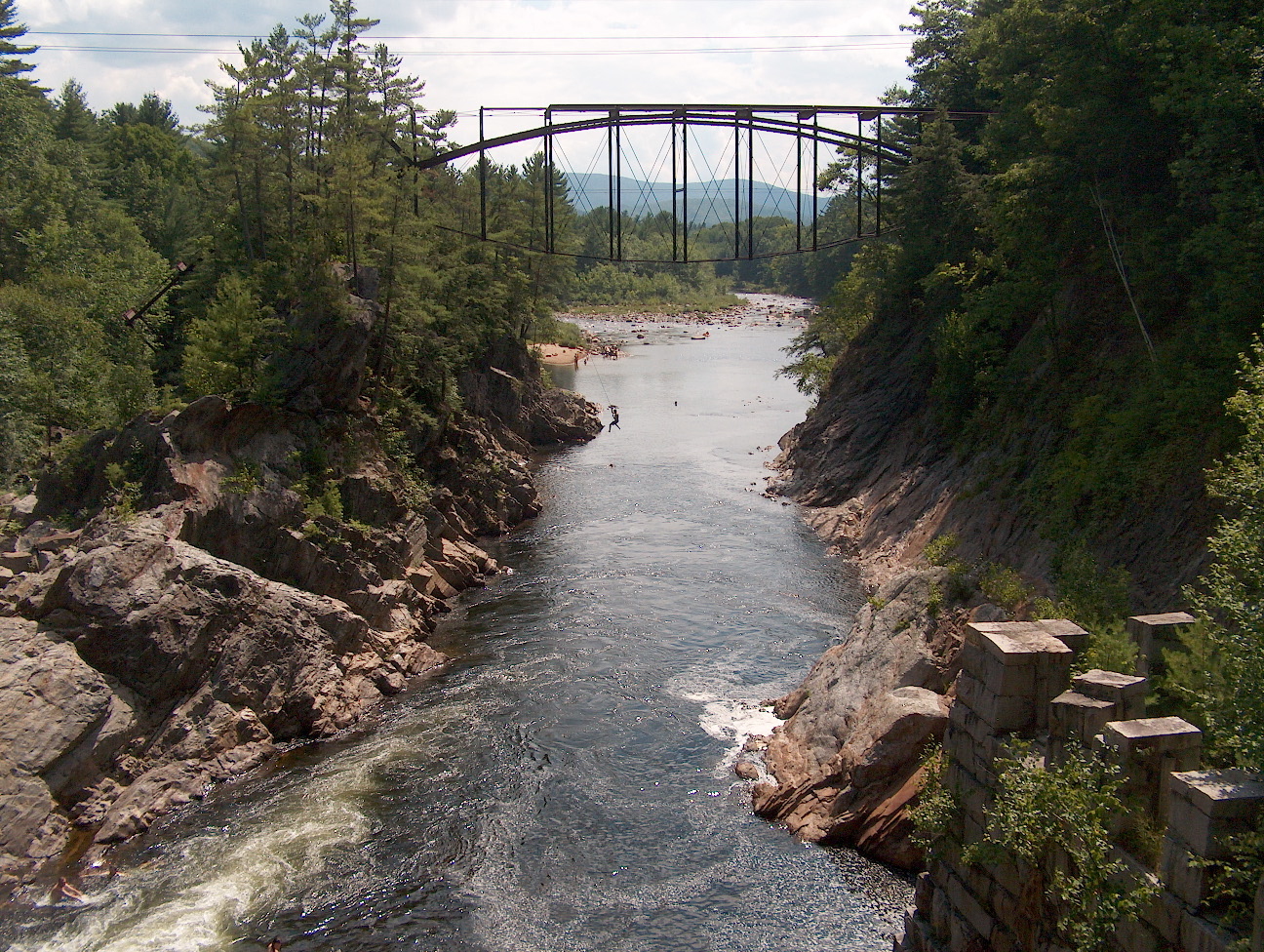 View of the Pemigewasset River in Campton, New Hampshire, at Livermore Falls. Photo by Ken Gallager.